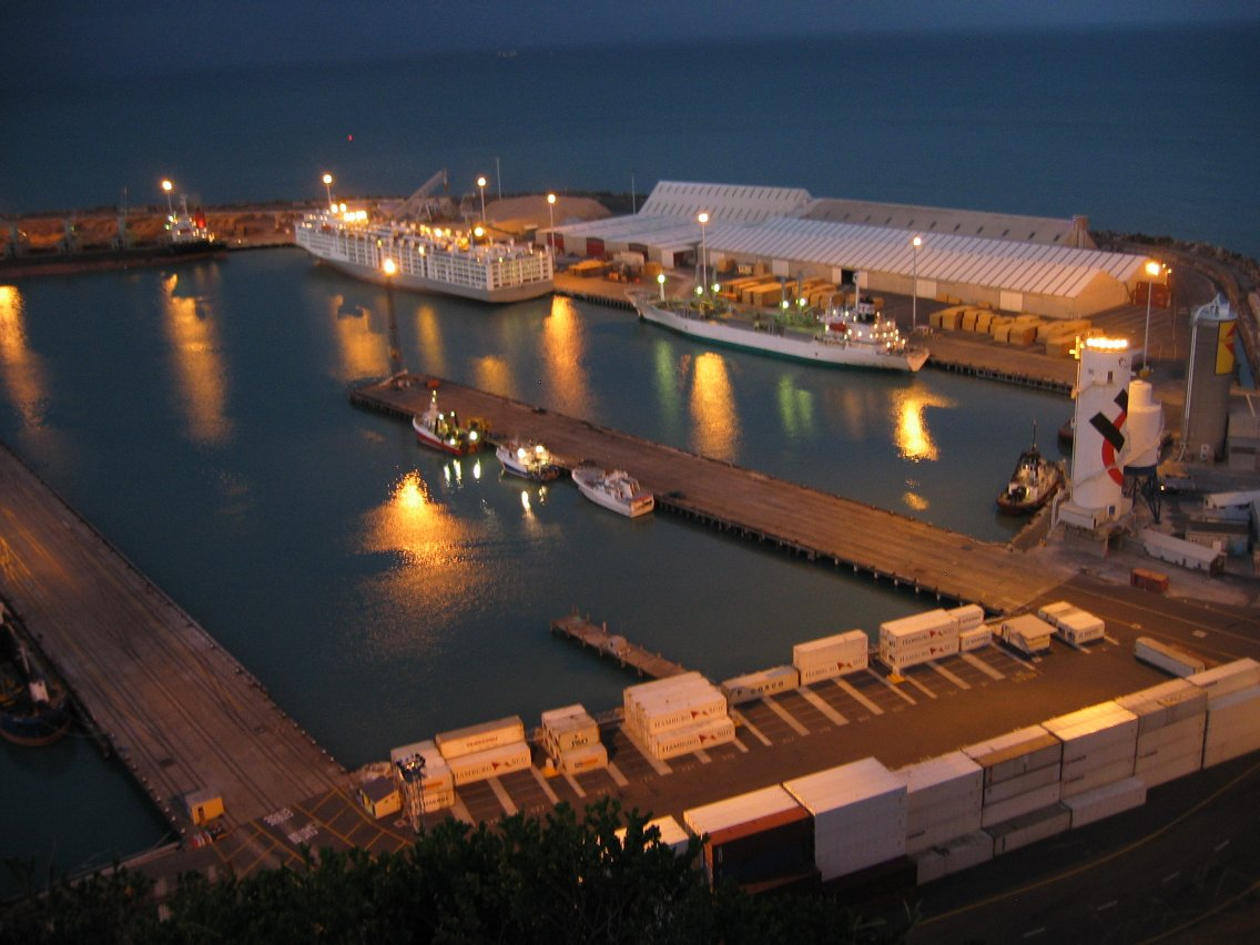 Nighttime view of the Port of Napier, from Bluff Hill.